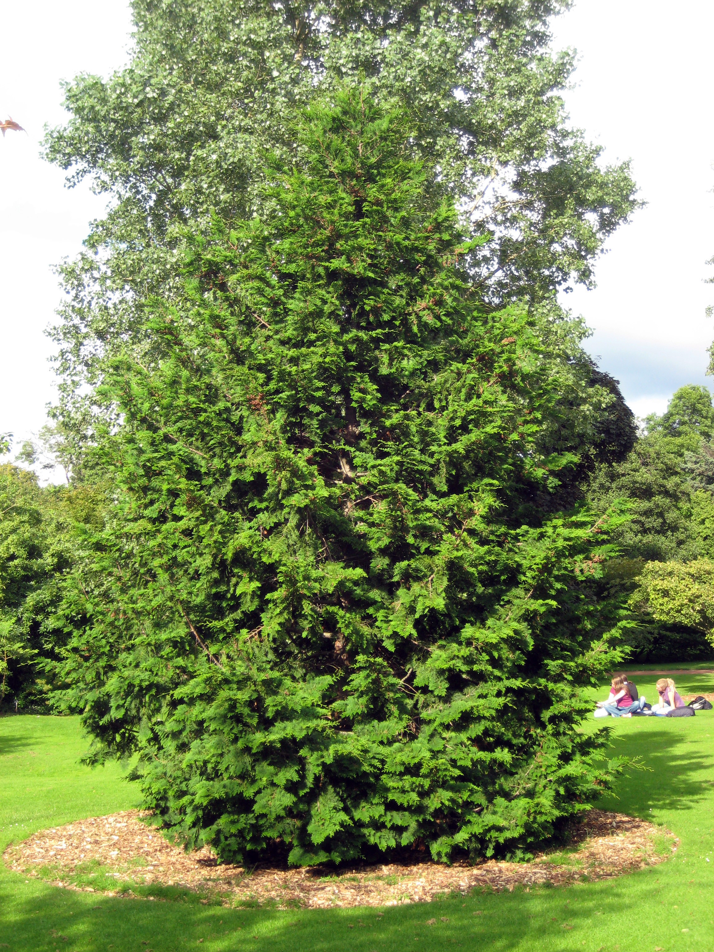 Japanese cypress, Hinoki cypress or Hinoki